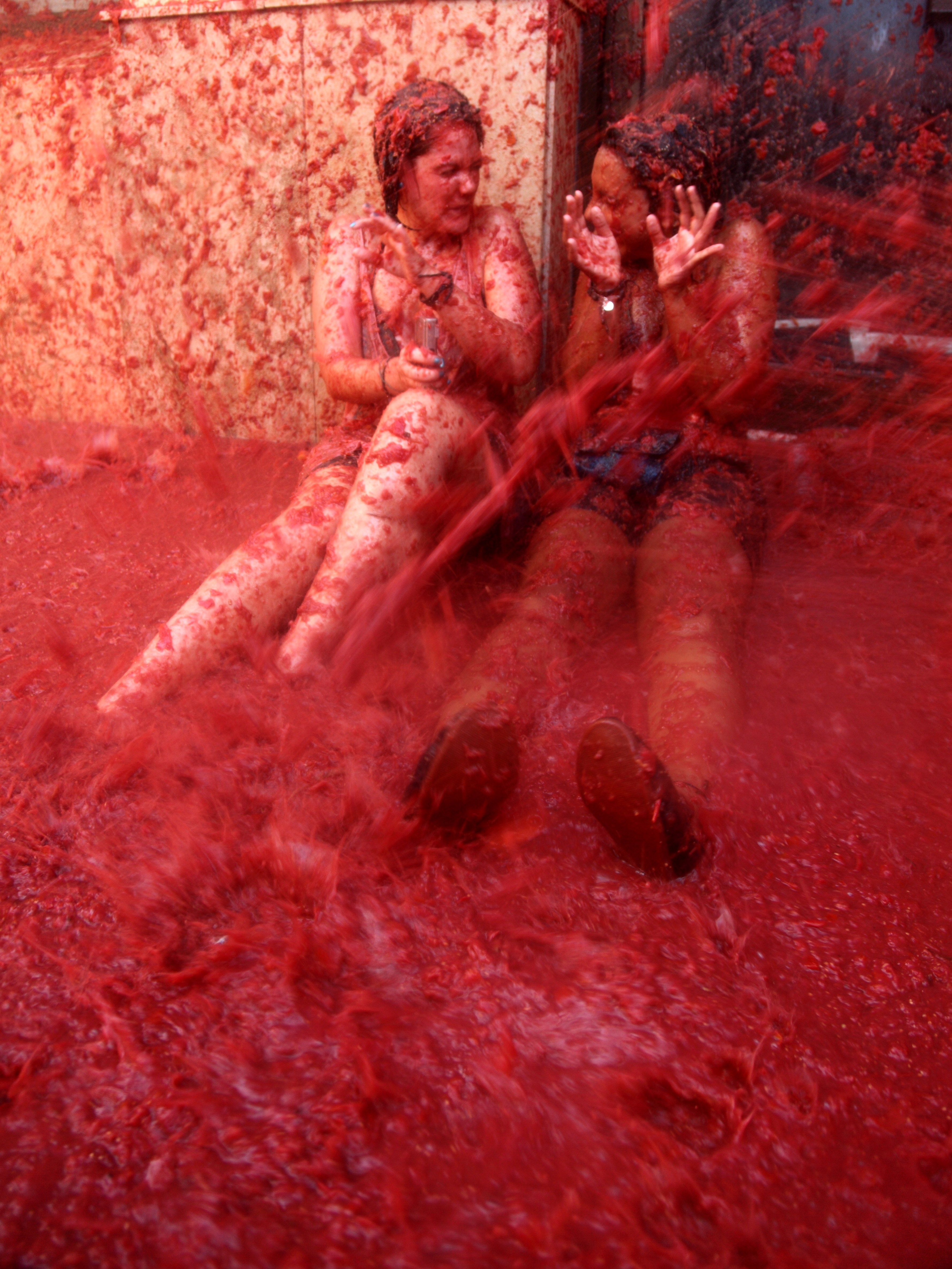 La Tomatina is a food fight festival held on the last Wednesday of August each year in the town of Buñol in the Valencia region of Spain. Tens of metric tons of over-ripe tomatoes are thrown in the streets in exactly one hour. Approximately 20,000–50,000 tourists come to find out more about the tomato fight, multiply by several times Buñol's normal population of slightly over 9,000. There is limited accommodation for people who come to La Tomatina, and thus many participants stay in Valencia and travel by bus or train to Buñol, about 38 km outside the city. In preparation for the dirty mess that will ensue, shopkeepers use huge plastic covers on their storefronts in order to protect them. They also use about 150,000 (kg) tomatoes, just about 90,000 pounds (